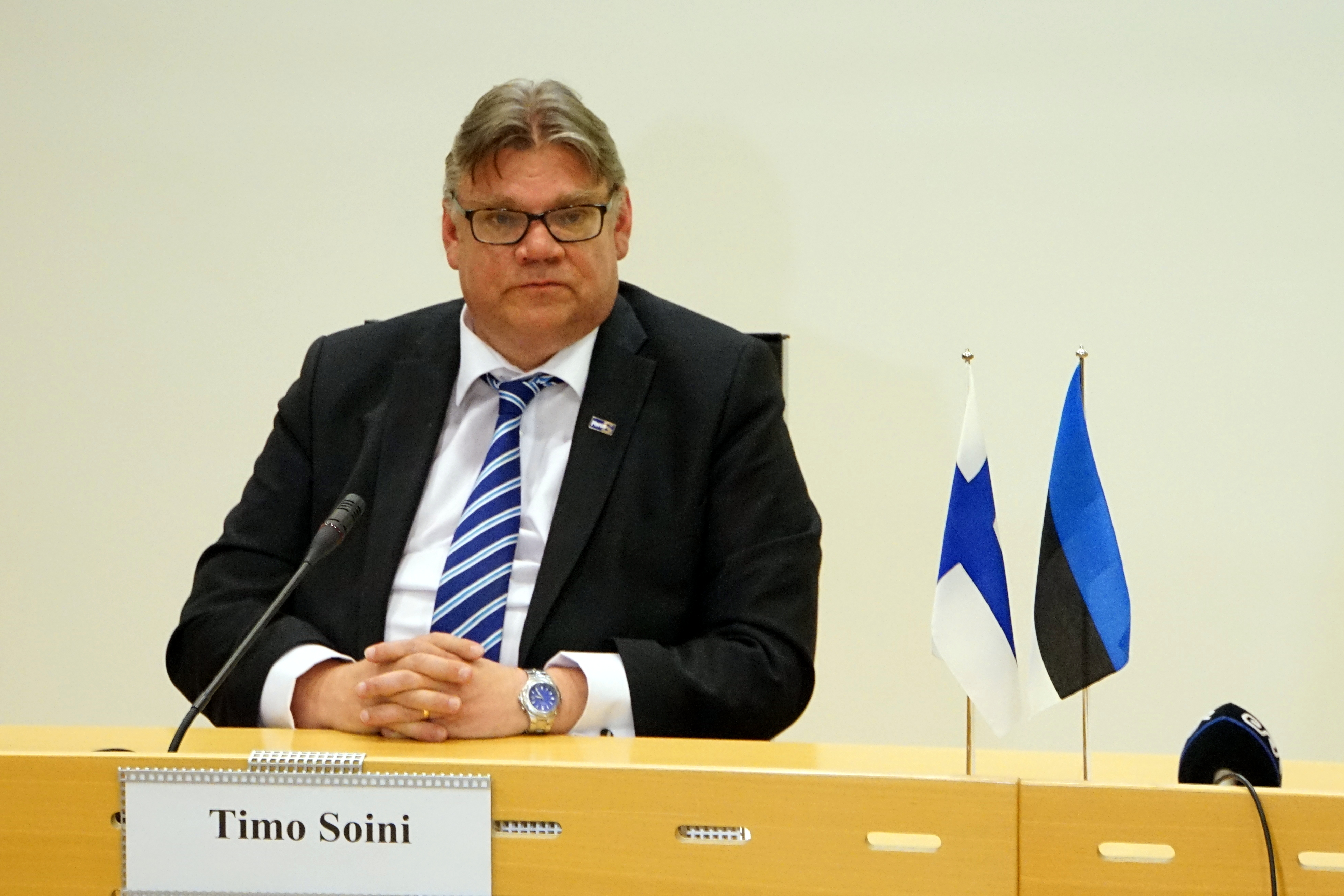 FM Keit Pentus-Rosimannus met with Finnish FM Timo Soini